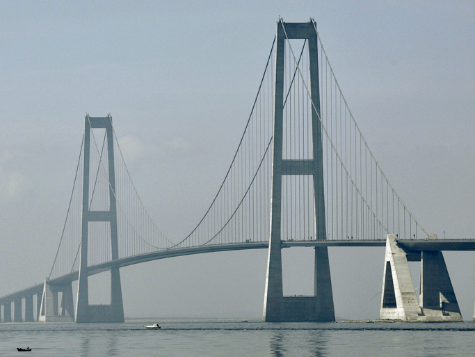 Storebæltsbroen (Great Belt Fixed Link, Denmark), the high bridge from the low bridge.